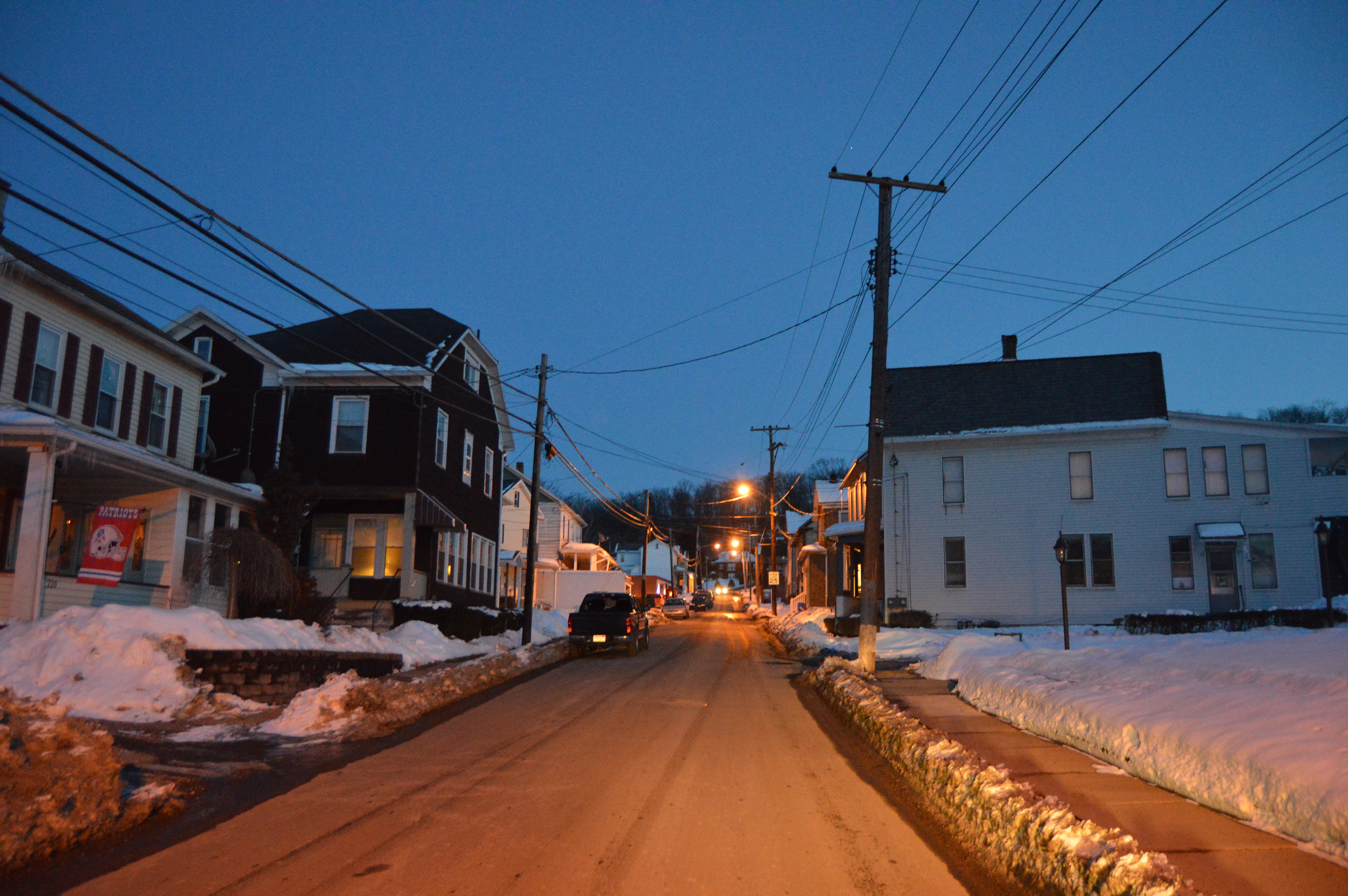 Looking south along Habicht Street from the Gilbert Street intersection in Brownstown, Pennsylvania, United States.